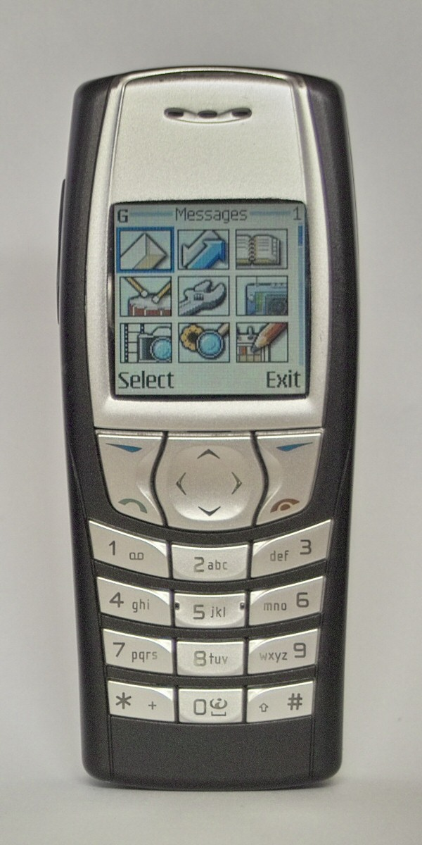 Nokia 6610i, photographed by ed g2s • talk.